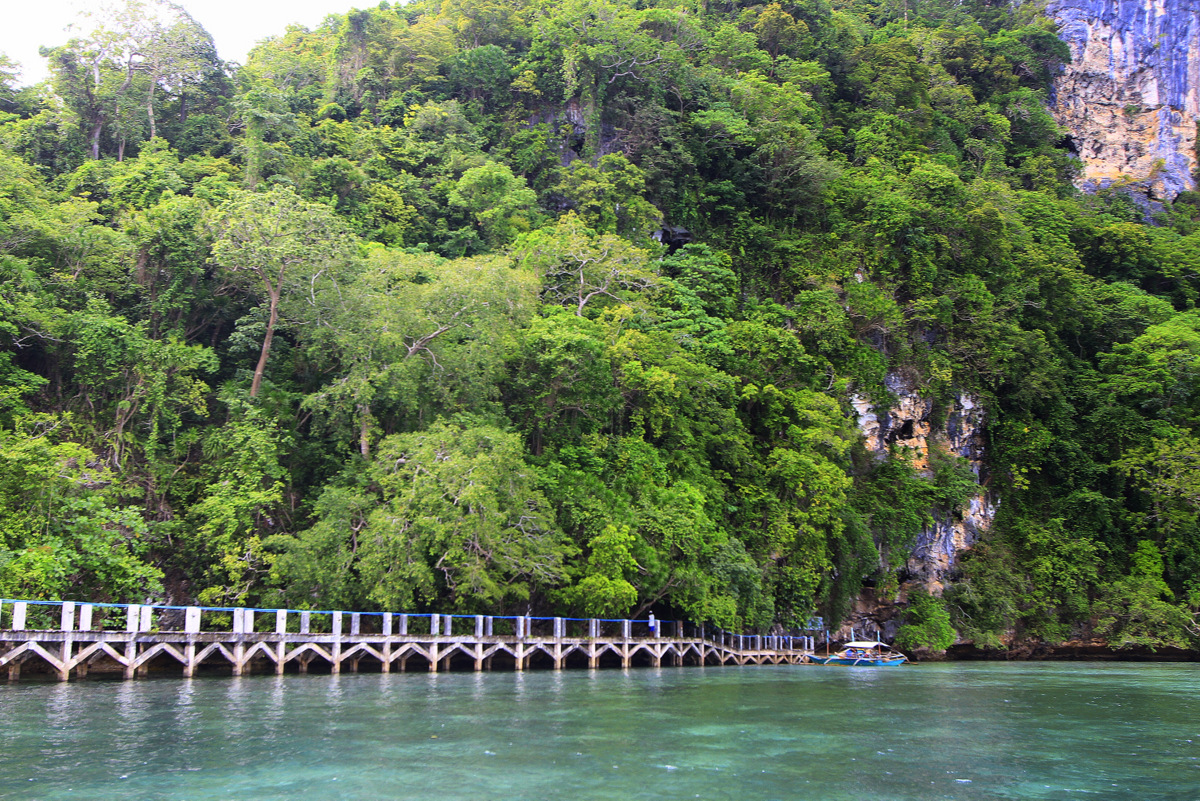 View of Tabon Cave Complex site in Lipuun Point, Quezon, Palawan (July 2014)